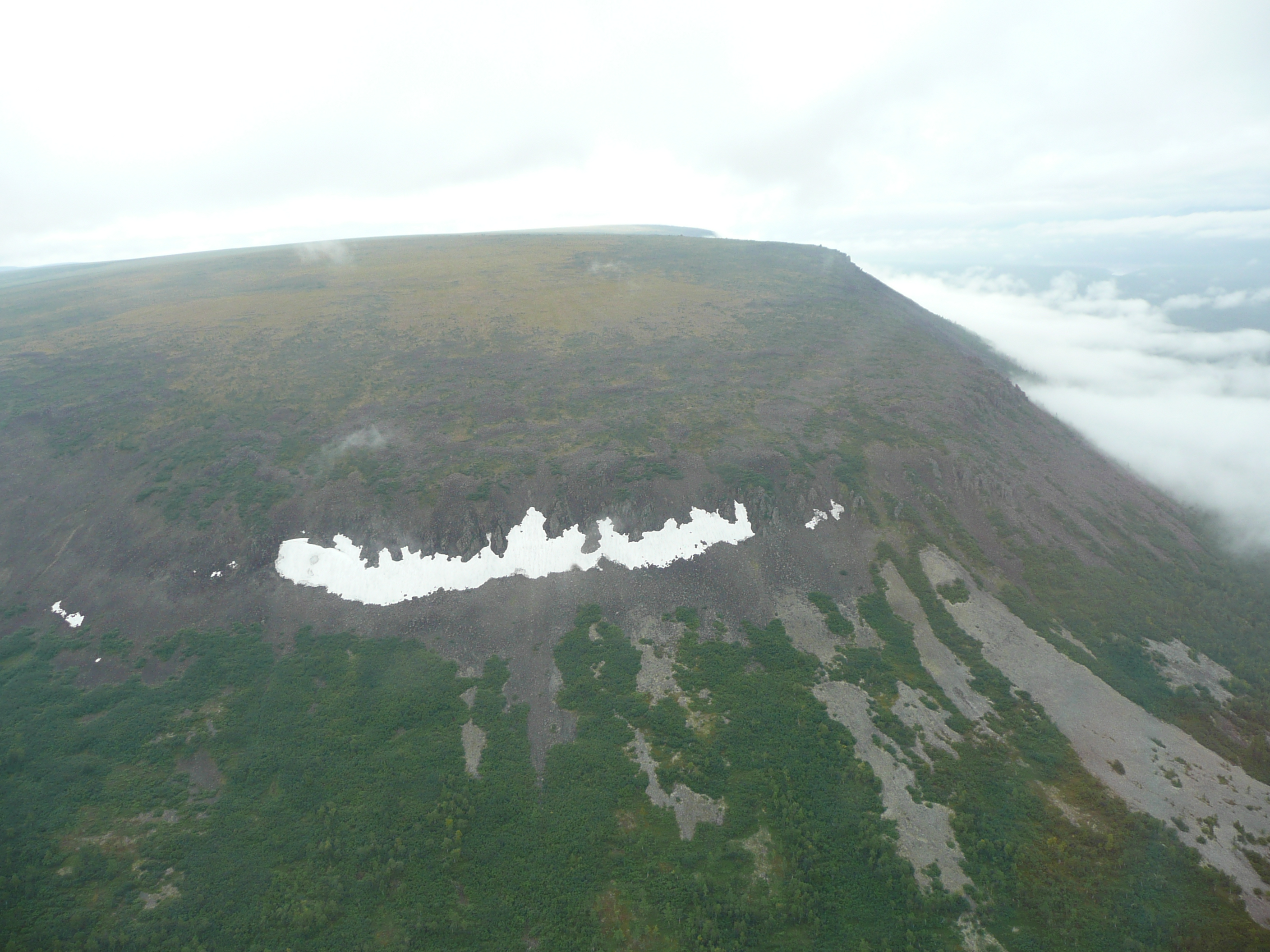 Central Siberian Plateau unidentified location A geocoded location could be added to this image. Visit Commons:Geocoding for information on how to add coordinates. Beta-test: Add coordinates helps to determine coordinates.